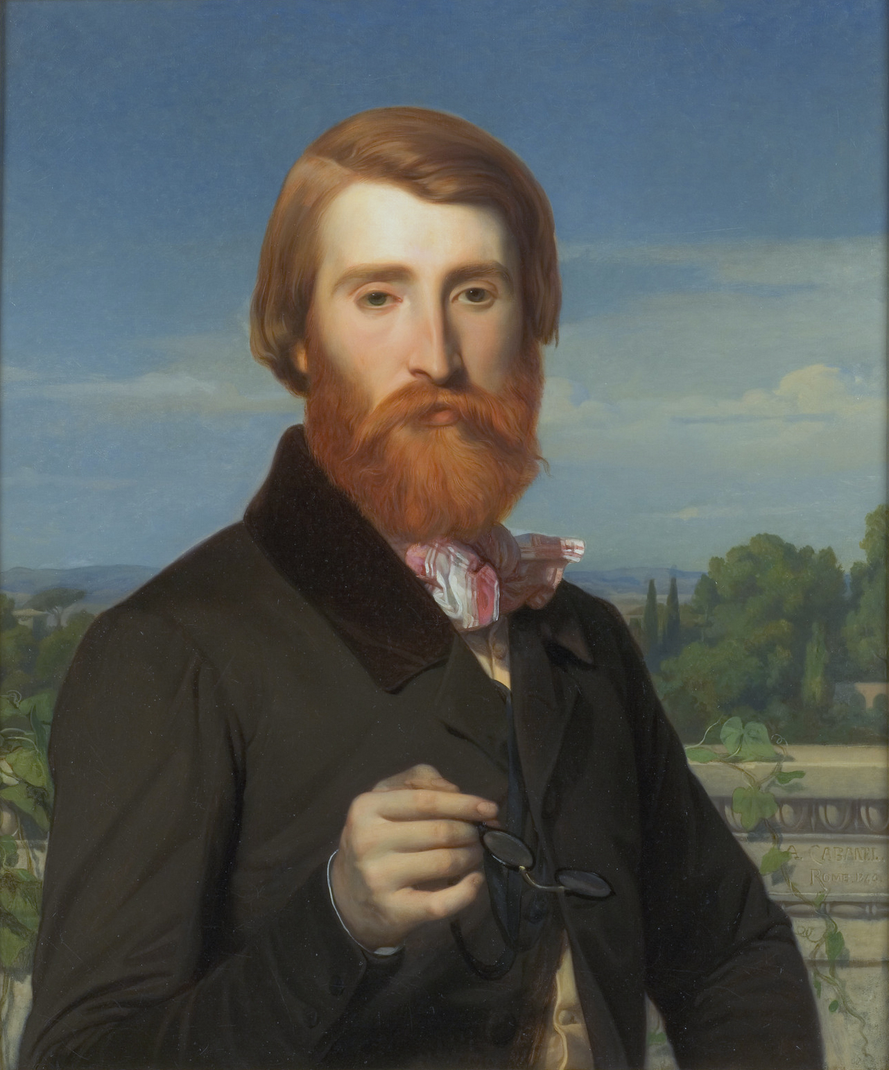 Alfred Bruyas oil on canvas 73.98 x 63.18 cm 1846